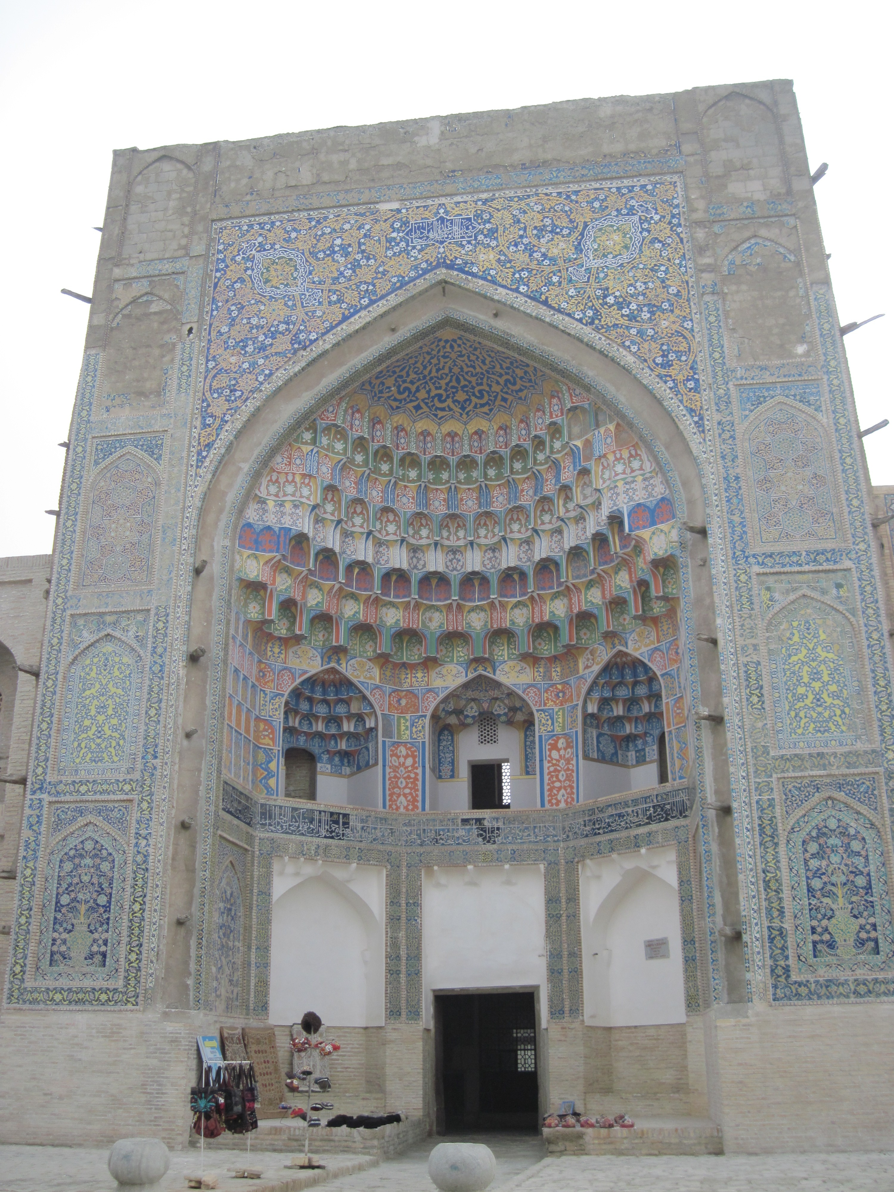 Medrese Abdulazizkhan in Bukhara, 17th century